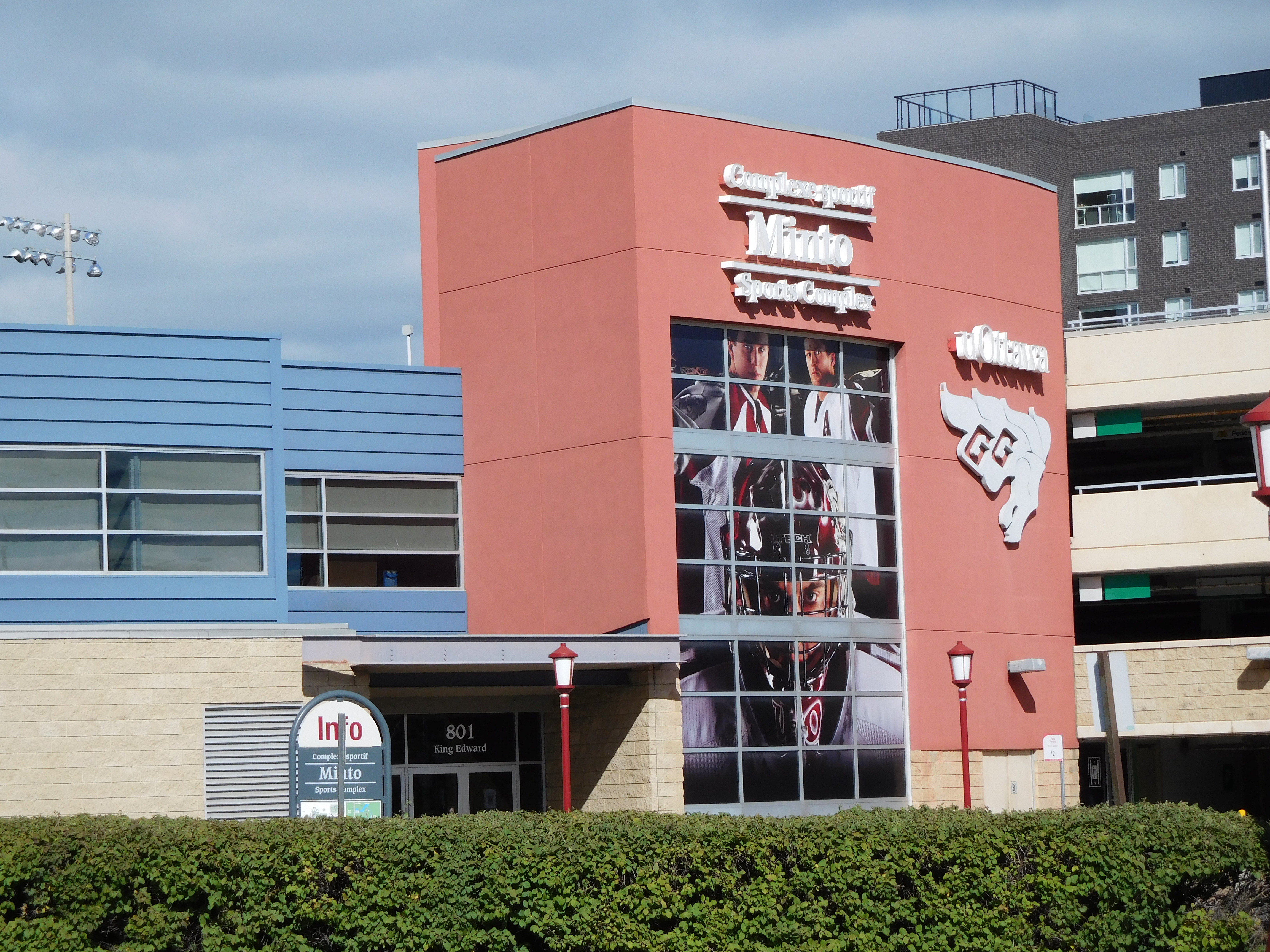 Minto Sports Complex (MNO), 801 King Edward Avenue, Ottawa uottawa.ca